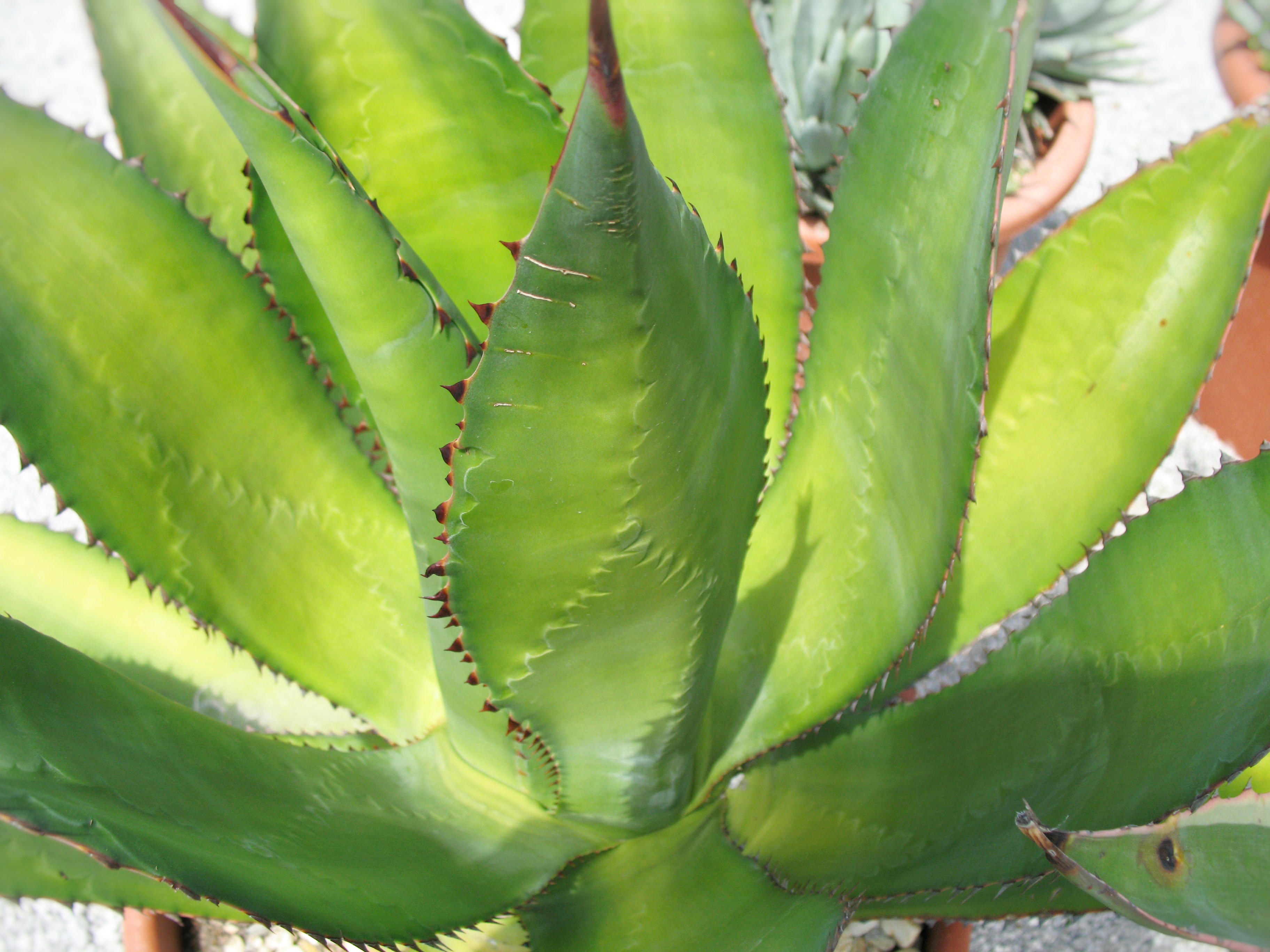 Agave ferox.